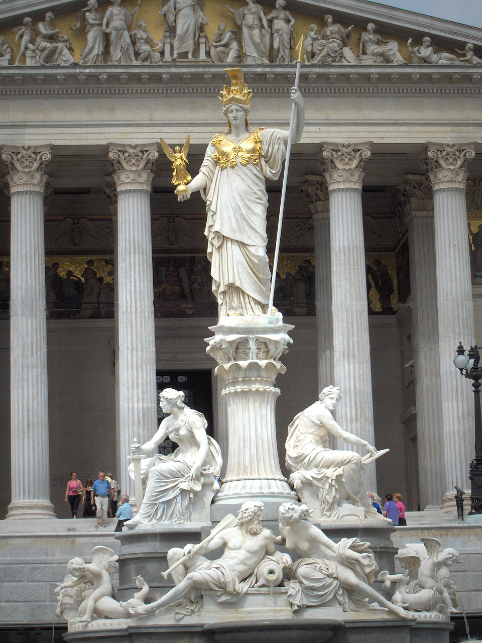 Austria, Vienna, Austrian Parliament Building